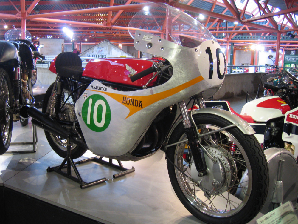 Honda RC162 from 1961, ridden by Mike Hailwood